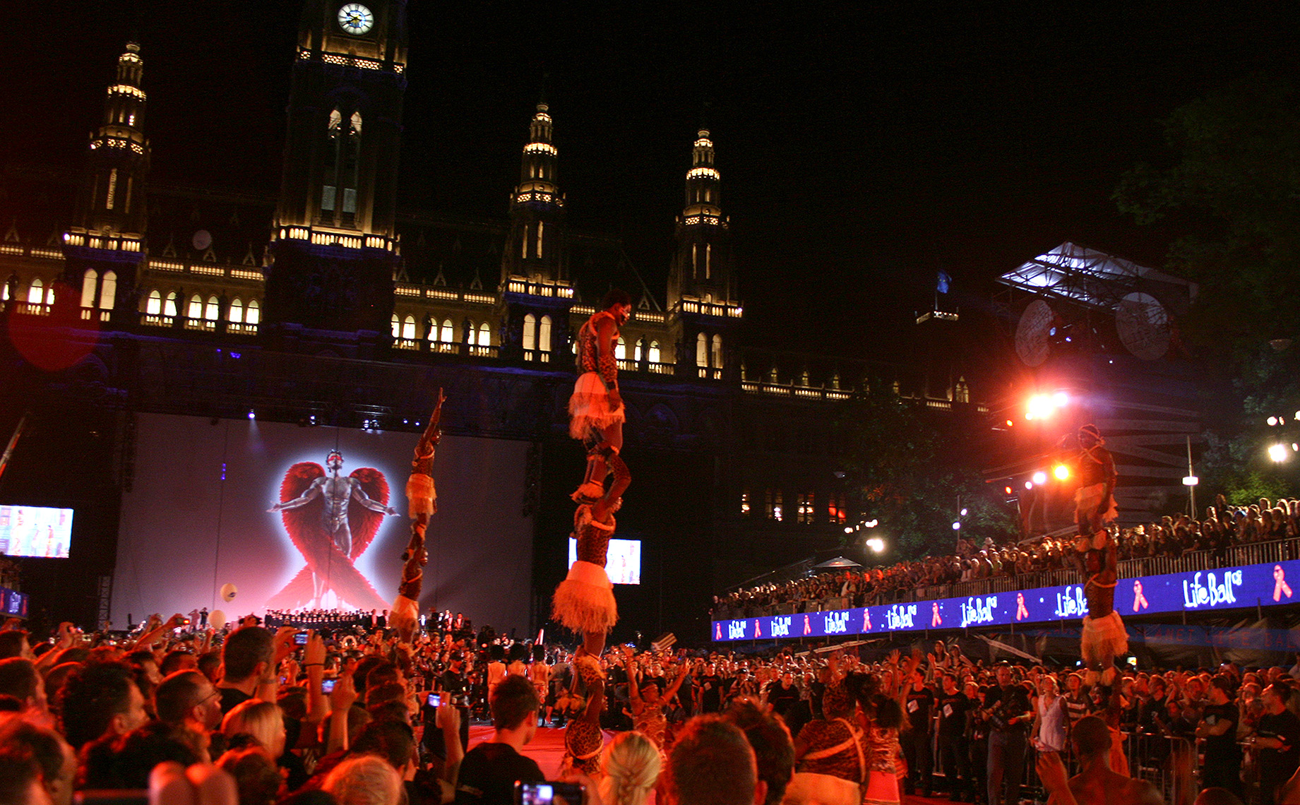 Life Ball 2008: Artists of the show 'Afrika! Afrika!' performing at the opening show in front of the city hall of Vienna.